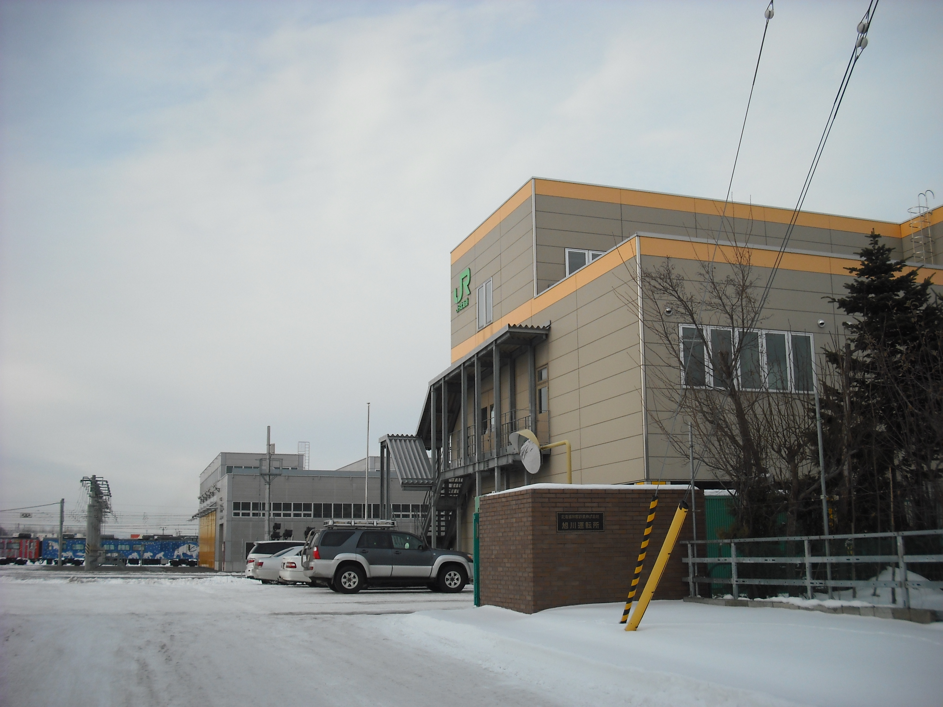 JR Hokkaido Asahikawa Untenjo. The Limited Express Asahiyama Zoo can be seen in the far